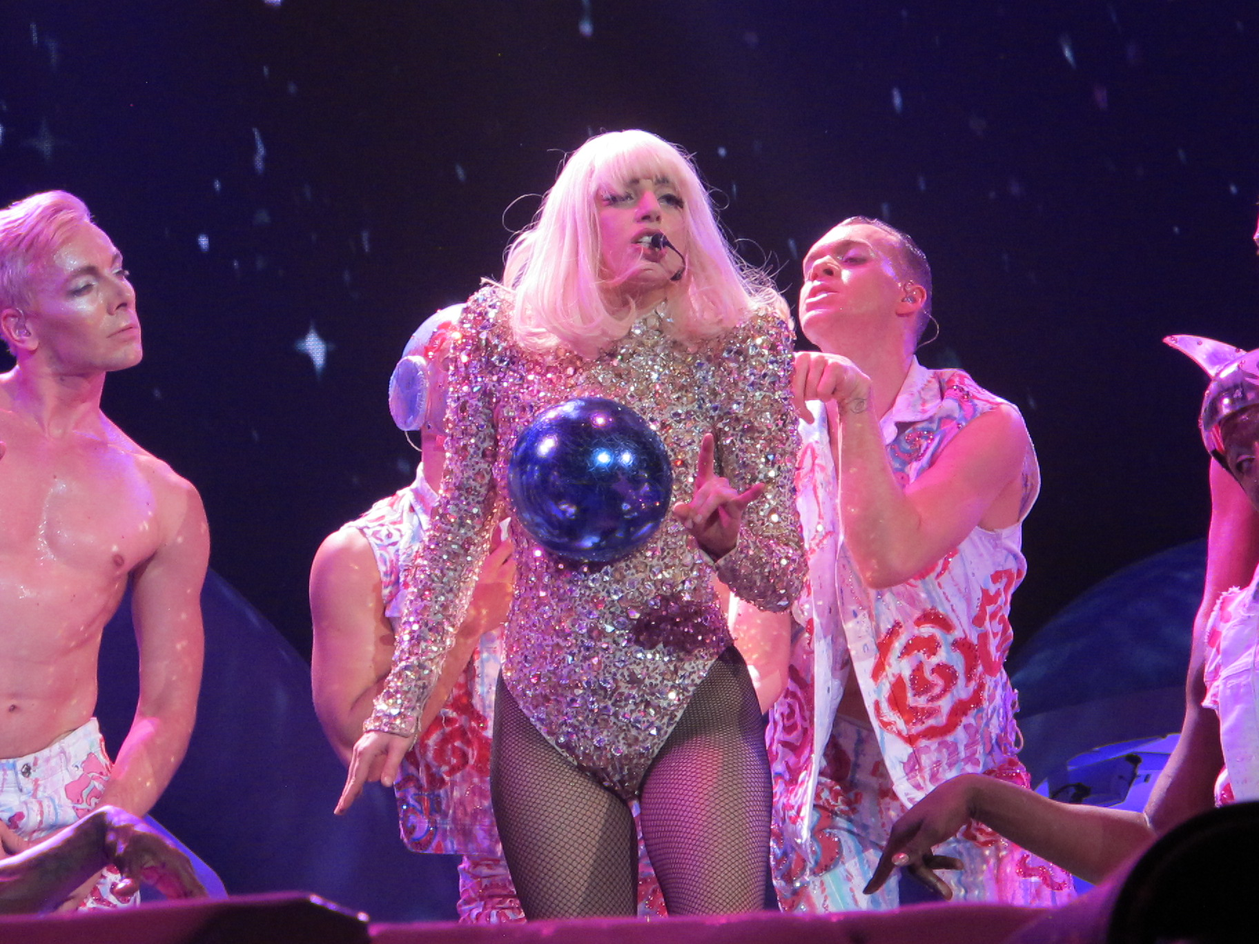 IMG_8180 Lady Gaga performing at ArtRave: The Artpop Ball of San Diego